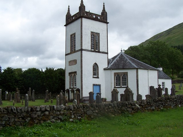 Cairndow, Kilmorich Church.